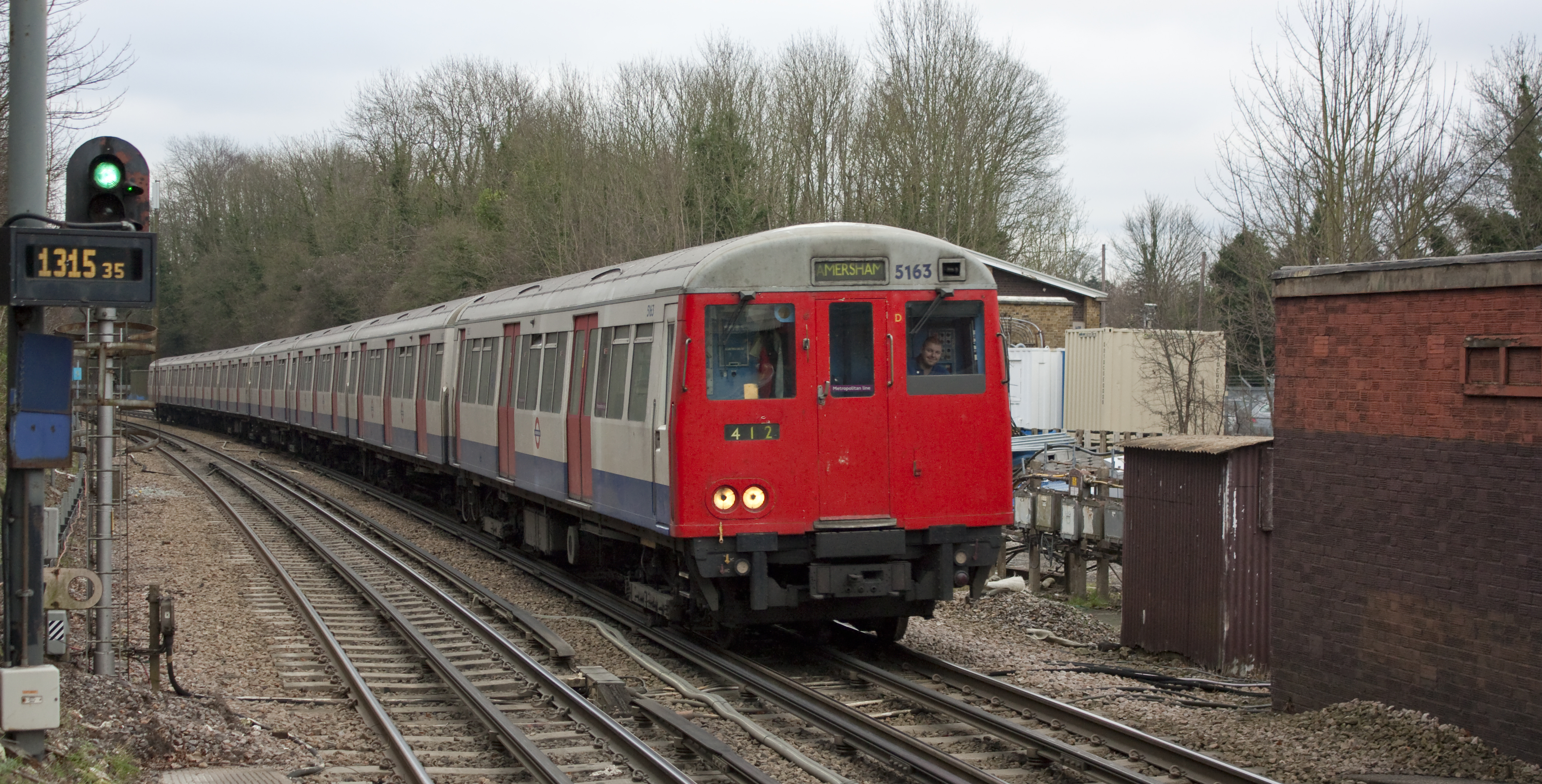 Amersham (local) bound Metropolitan line train approaching Chorleywood, Hertfordshire.